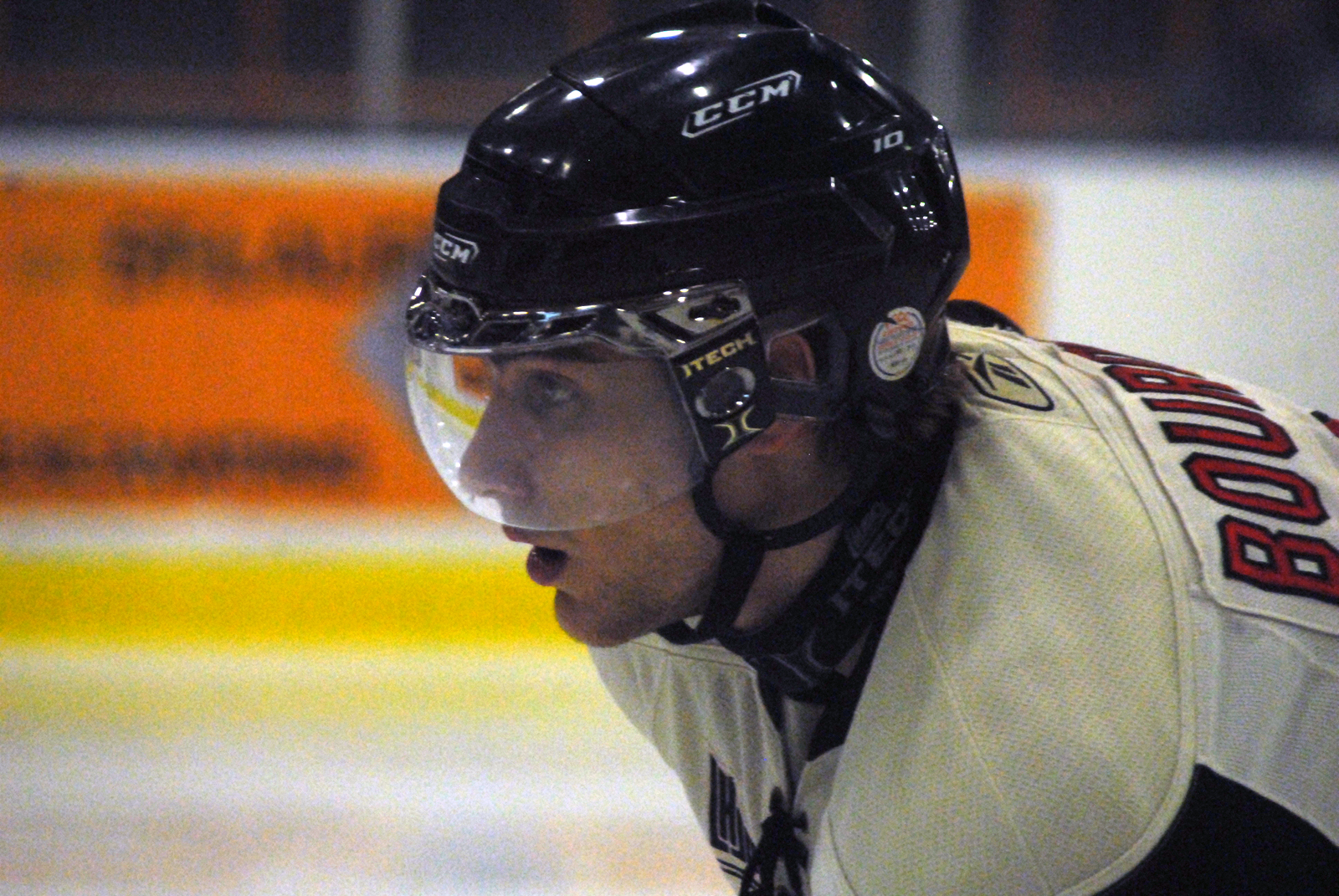 Ryan Bourque Lewiston MAINEiacs vs. Quebec Remparts, February 12, 2011. Quebec Major Junior Hockey League (QMJHL). Remparts won 4-2. This photo also appears in Sarah Connors Flickr set "MAINEiacs vs. Remparts, 2/12/11" (Set of 35)